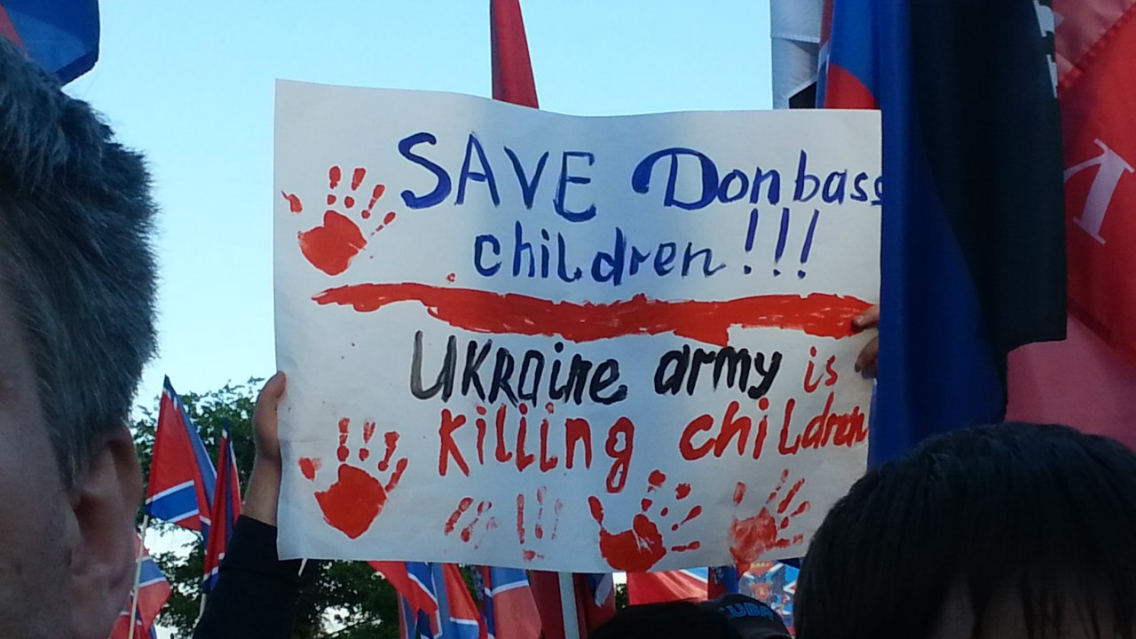 On 11 June in Moscow, Suvorovskaya square, a rally was held in support of the inhabitants of the Eastern regions of Ukraine "Stand for Donbass". The action began with a minute of silence. In the course of the meeting its participants expressed solidarity with the peaceful population of Eastern Ukraine and the protest against the anti-terrorist operations. Before the protesters were made by the leader of the liberal democratic party of Russia Vladimir Zhirinovsky and the head of the Donetsk national Republic Denis Pushilin. The participants signed a petition to the President of Russia Vladimir Putin.